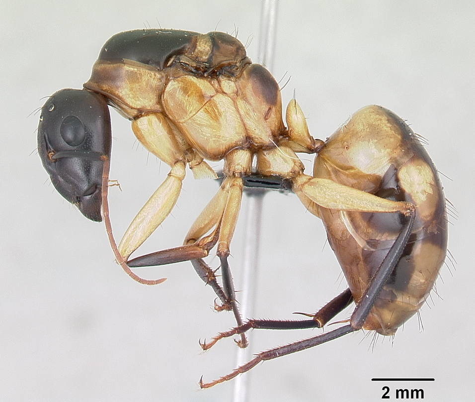 Profile view of ant Camponotus maculatus specimen casent0055751.